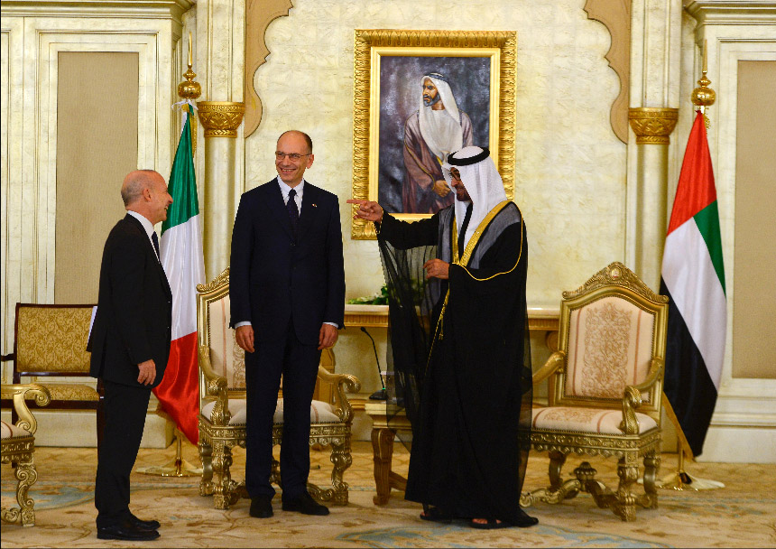 Giorgio Starace with the President of the Council Enrico Letta